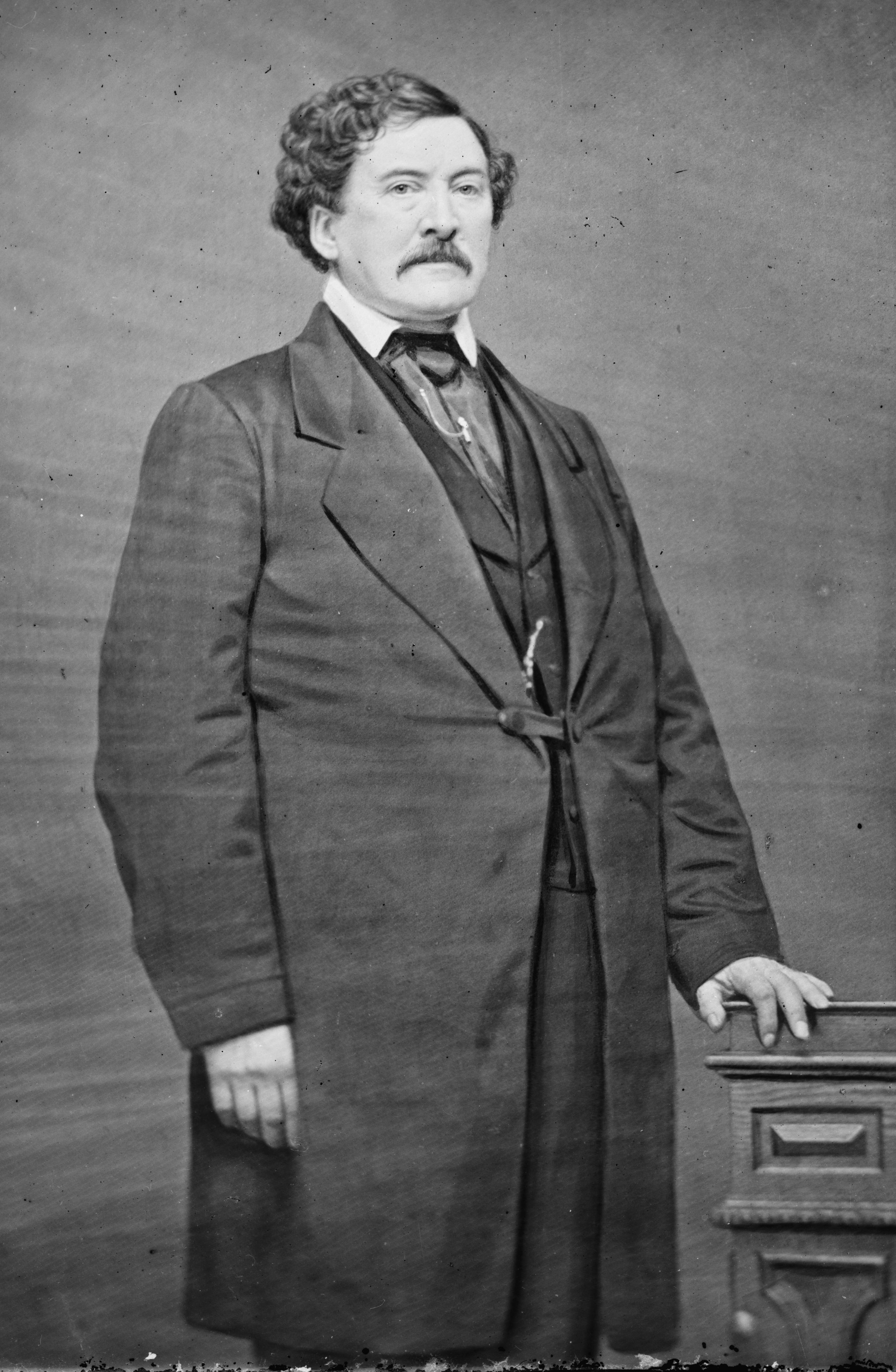 George Briggs. Library of Congress description: "Hon. George Briggs of N.Y."